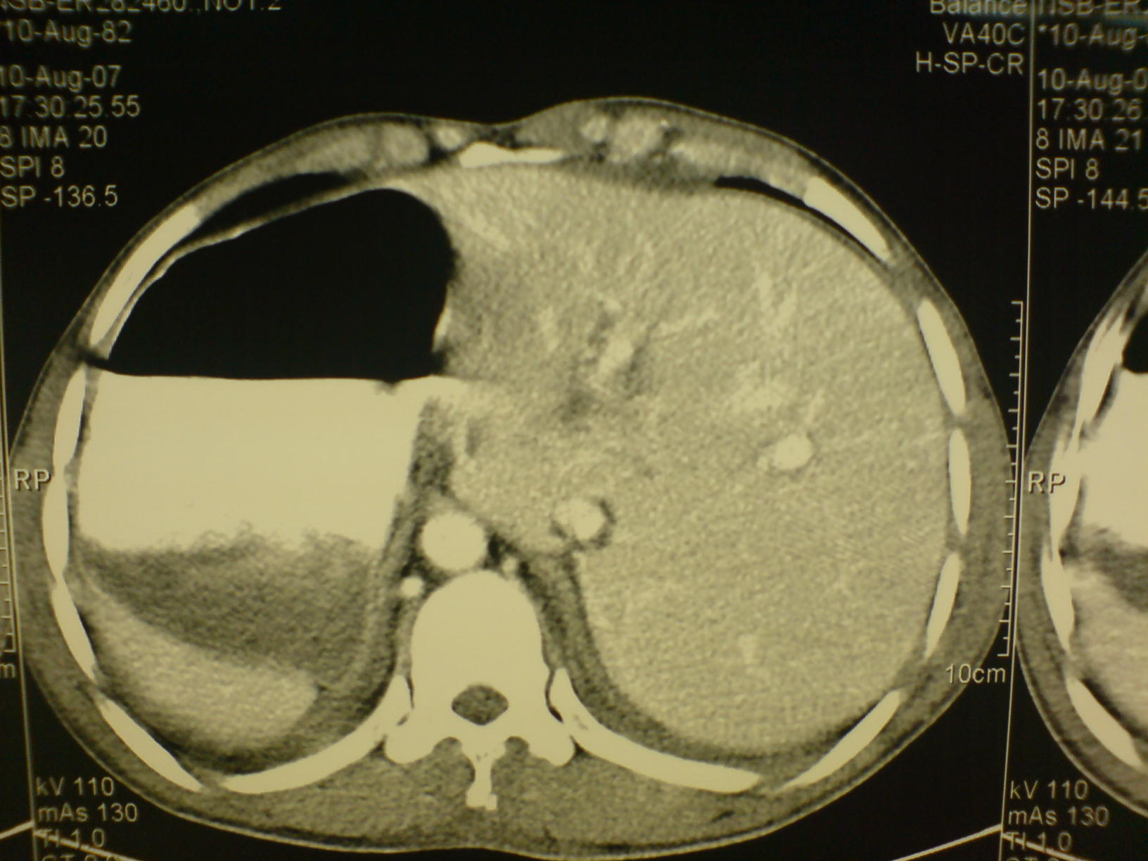 Computed tomography image of Situs inversus (also called situs transversus or oppositus) is a congenital condition in which the major visceral organs are reversed or mirrored from their normal positions.